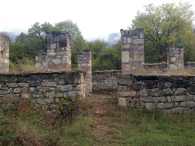 Chabukauri basilica. A ruined 5th-century church in Kakheti, eastern Georgia.